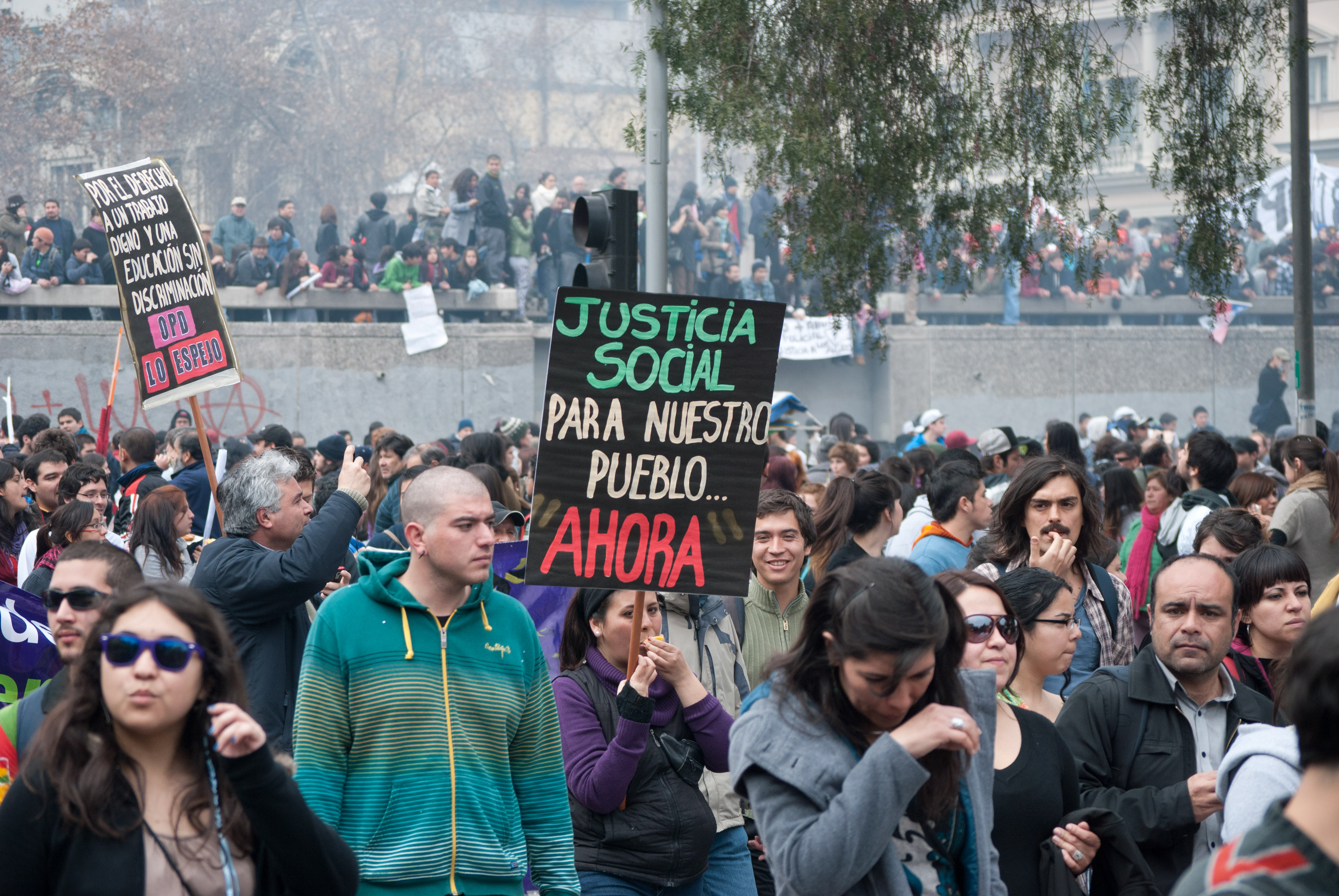 "Social justice for our people... now". March as part of the nationwide two-day strike called by the Workers' United Center of Chile. August 25, 2011.